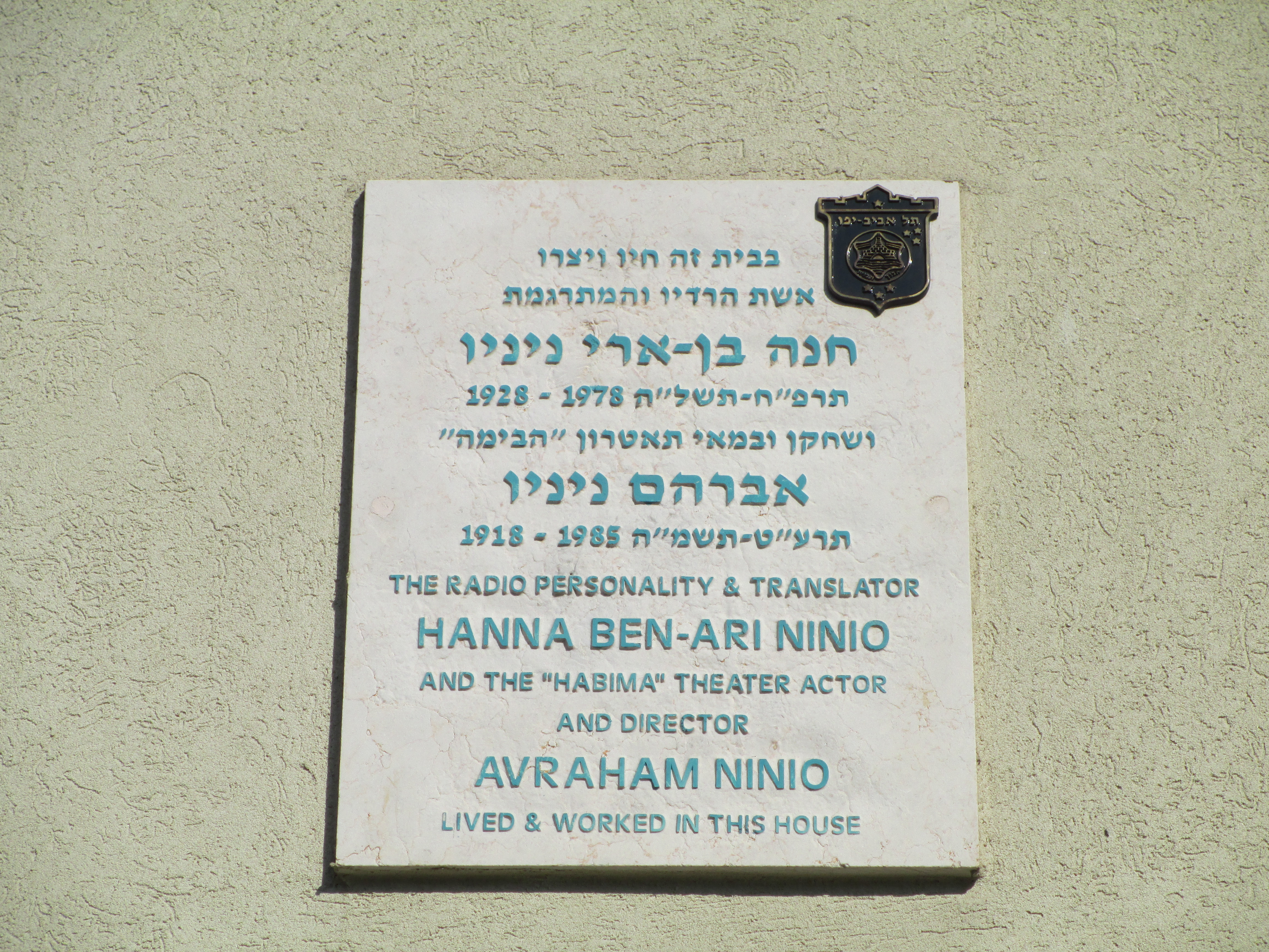 memorial plaque on the house of abraham & hanna ninio in tel aviv לוחית זיכרון על ביתם של אברהם וחנה ניניו ברח' קפלן 13 בתל אביב